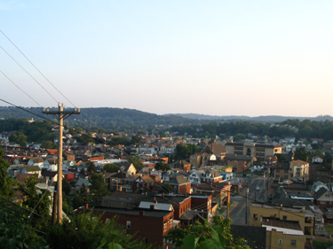 Depicted place: West Park